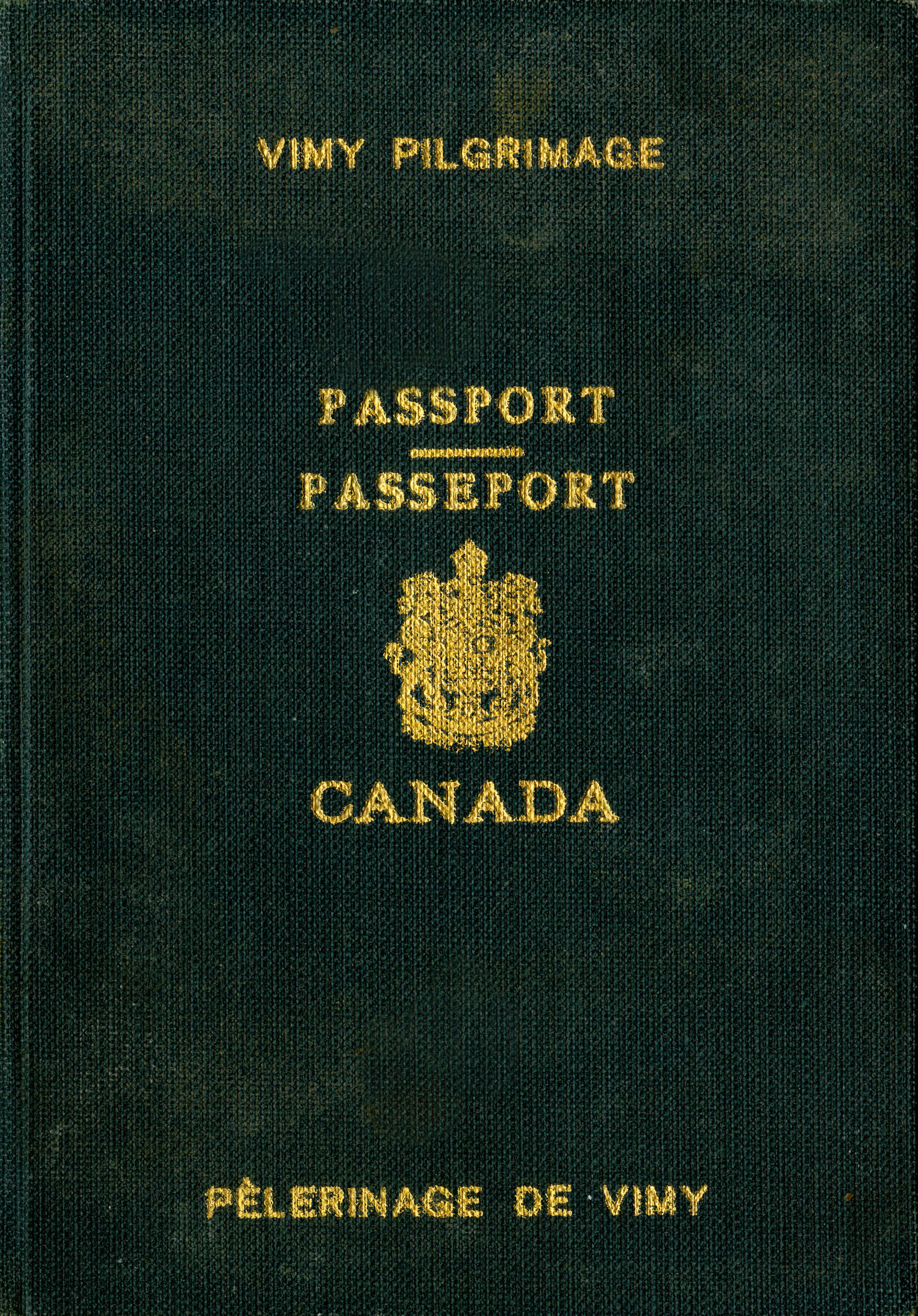 Vimy Passport. Passport issued by the Governor General of Canada to George Henry Cairns and Elizabeth Doris Cairns for the purpose of attending the 1936 Vimy pilgrimage.